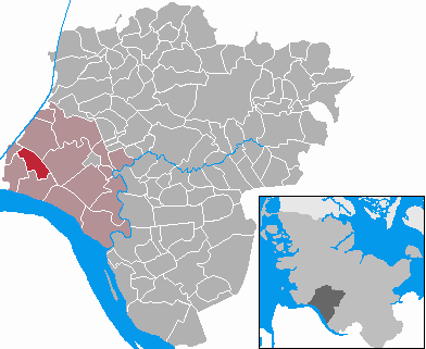 This map shows the area of the municipality Landscheide in the Kreis (district) Steinburg, Schleswig-Holstein, Germany.